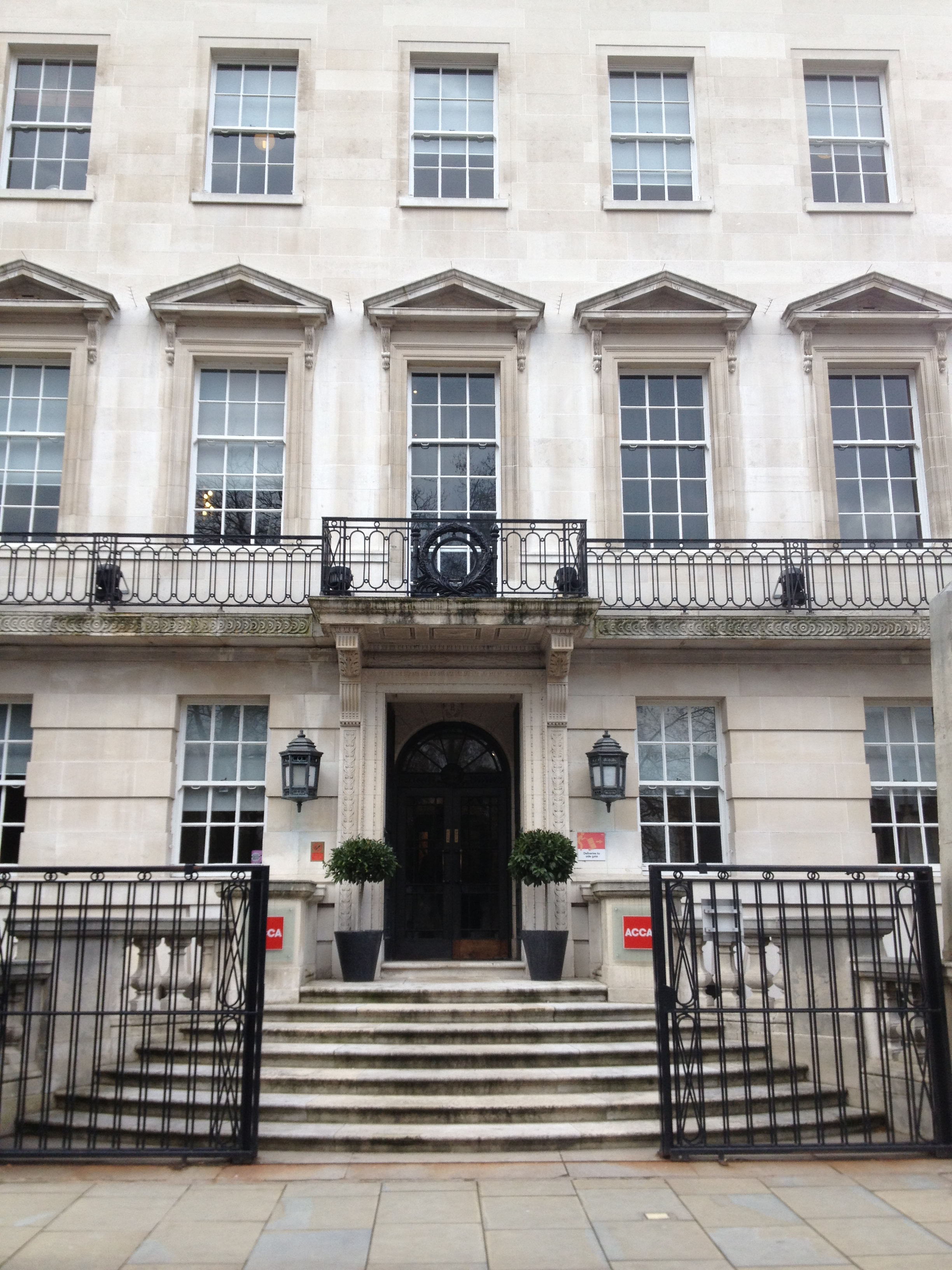 ACCA Office at 29 Lincoln's Inn Fields